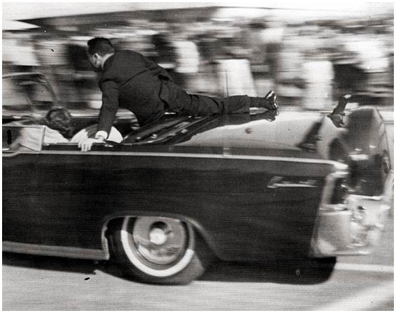 Secret Service agent Clinton Hill shielding the occupants of President Kennedy's limousine. (They were President Kennedy, Jackie Kennedy, Texas Governor John Connally and his wife, Nellie.)